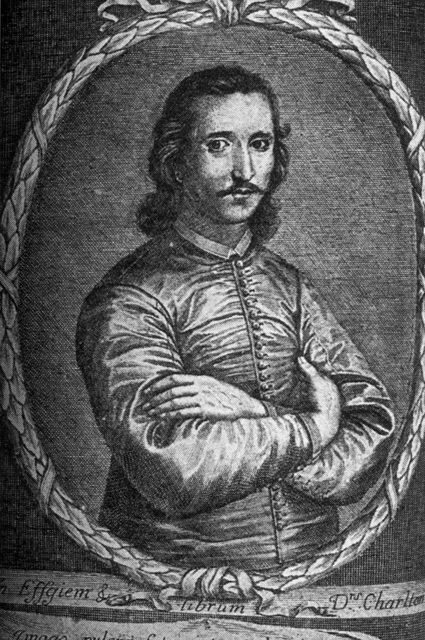 Portrait of Walter Charleton (1619-1707)